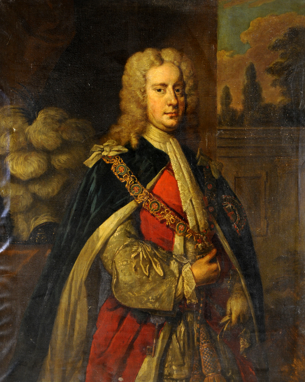 Portrait of Charles Spencer, 3rd Earl of Sunderland (1675-1722)